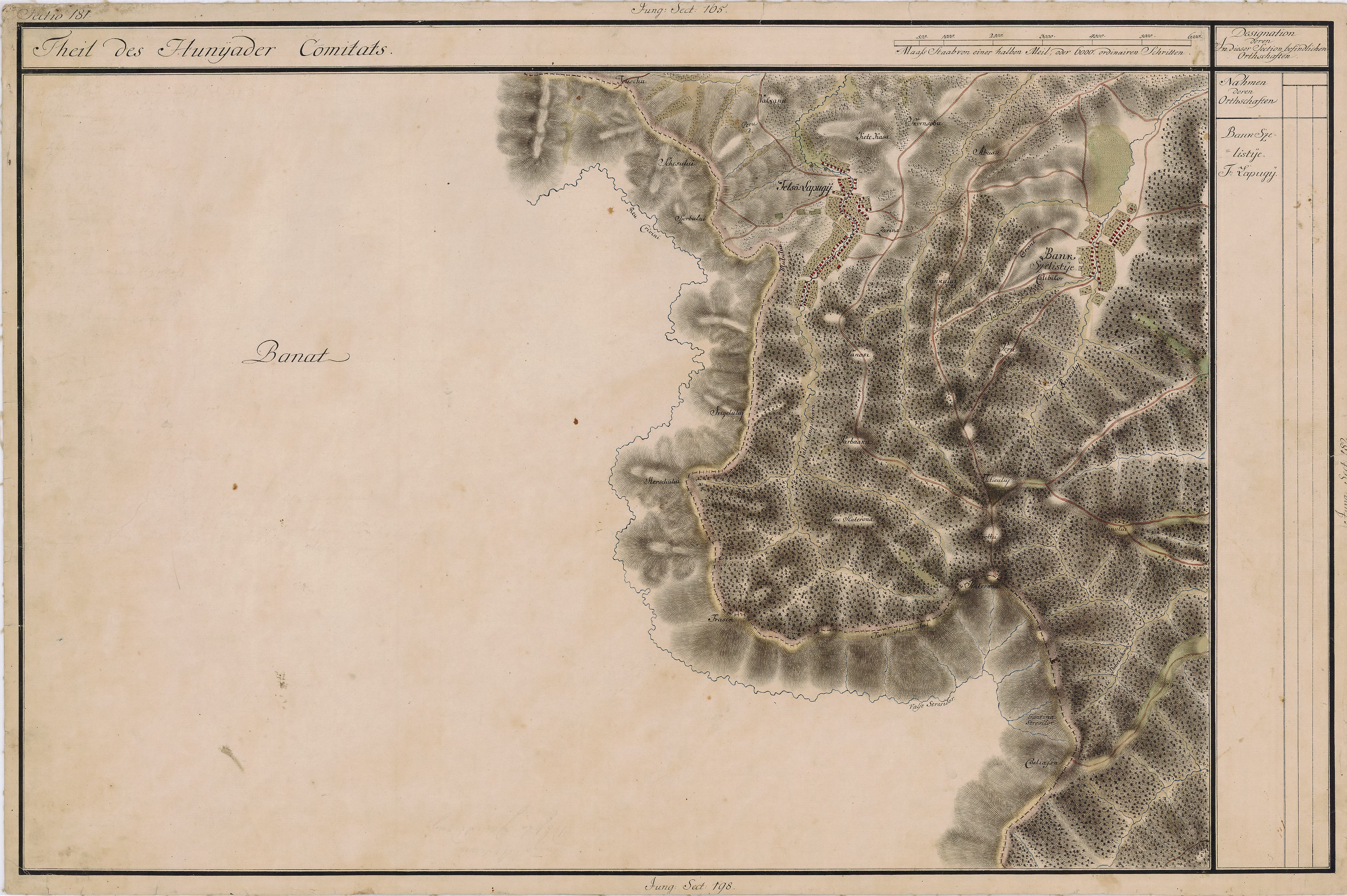 Grand Duchy of Transylvania, 1769-1773. Josephinische Landaufnahme pg.181